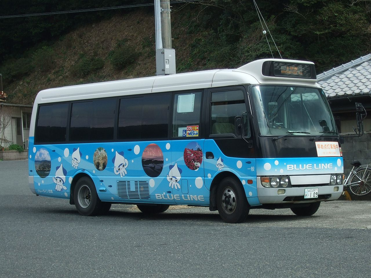 Company:Blueline Kotsu Use:transit bus Car license:YUY230 A 109 Chassis manufacturer:Mitsubishi Fuso Truck and Bus Type:Mitsubishi Fuso Rosa Coachbuilder:Mitsubishi Fuso Bus Manufacturing Location:In Nagato City, Yamaguchi, Japan.